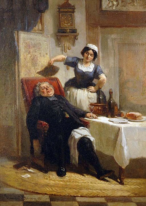 Gentleman Cooling Down